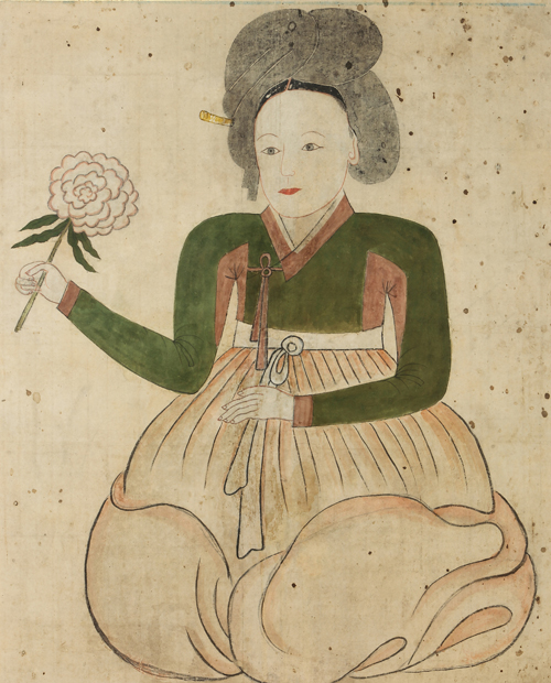 Princess Bari is the psychopomp and ancestral shaman/priest in mainland Korean shamanism. Here, she is holding the flower of resurrection that she uses to revive her parents at their funeral.